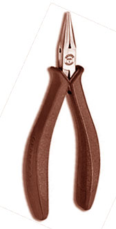 Needle-nose plies with wire cutter (side cutter).